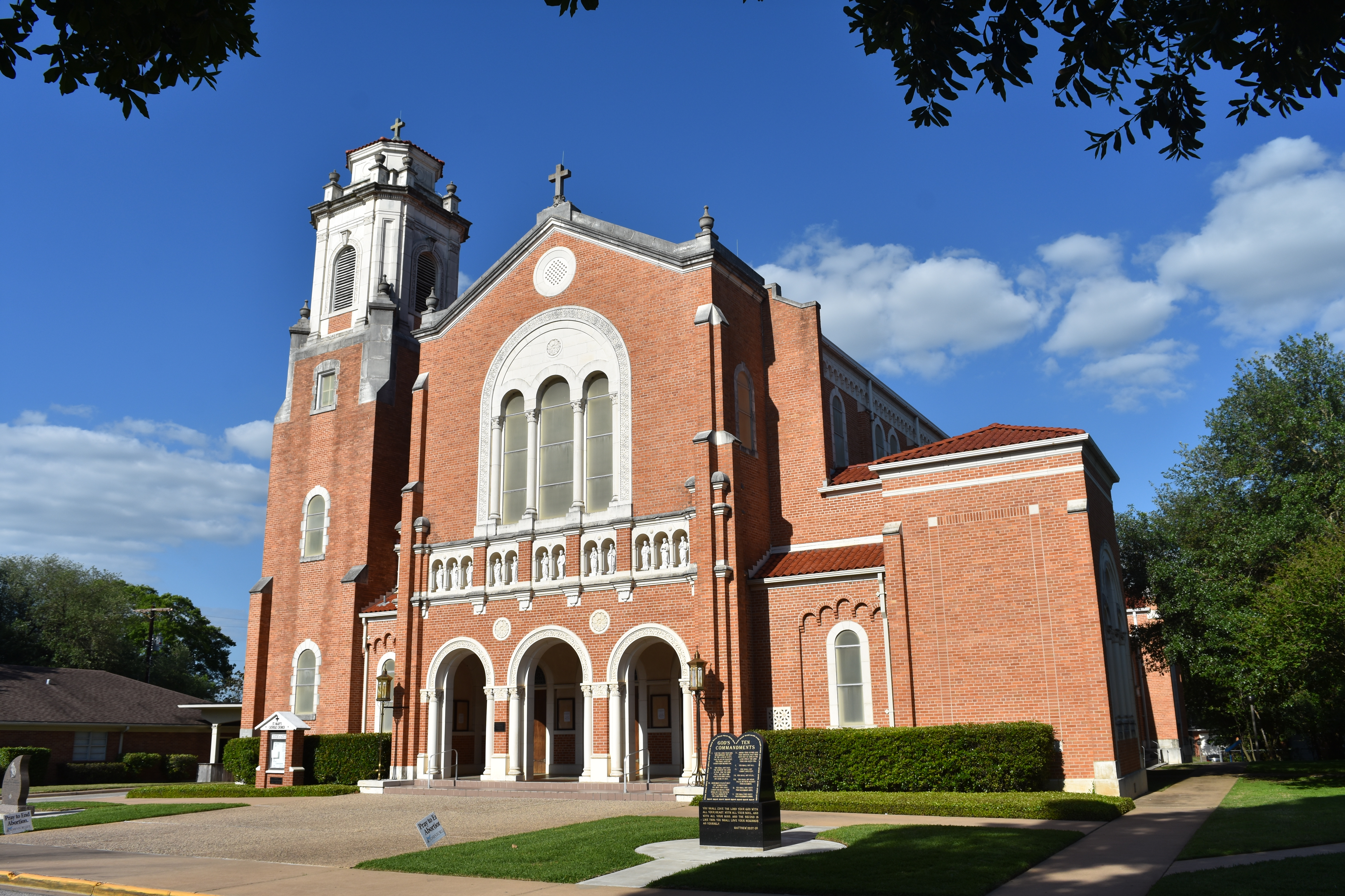 St. Mary's Catholic Church, Brenham, Texas, USA